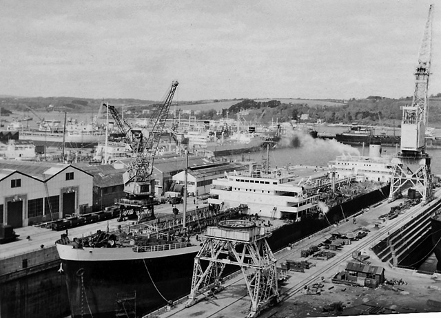 Falmouth Docks. View NE above Dry Dock to Carrick Roads